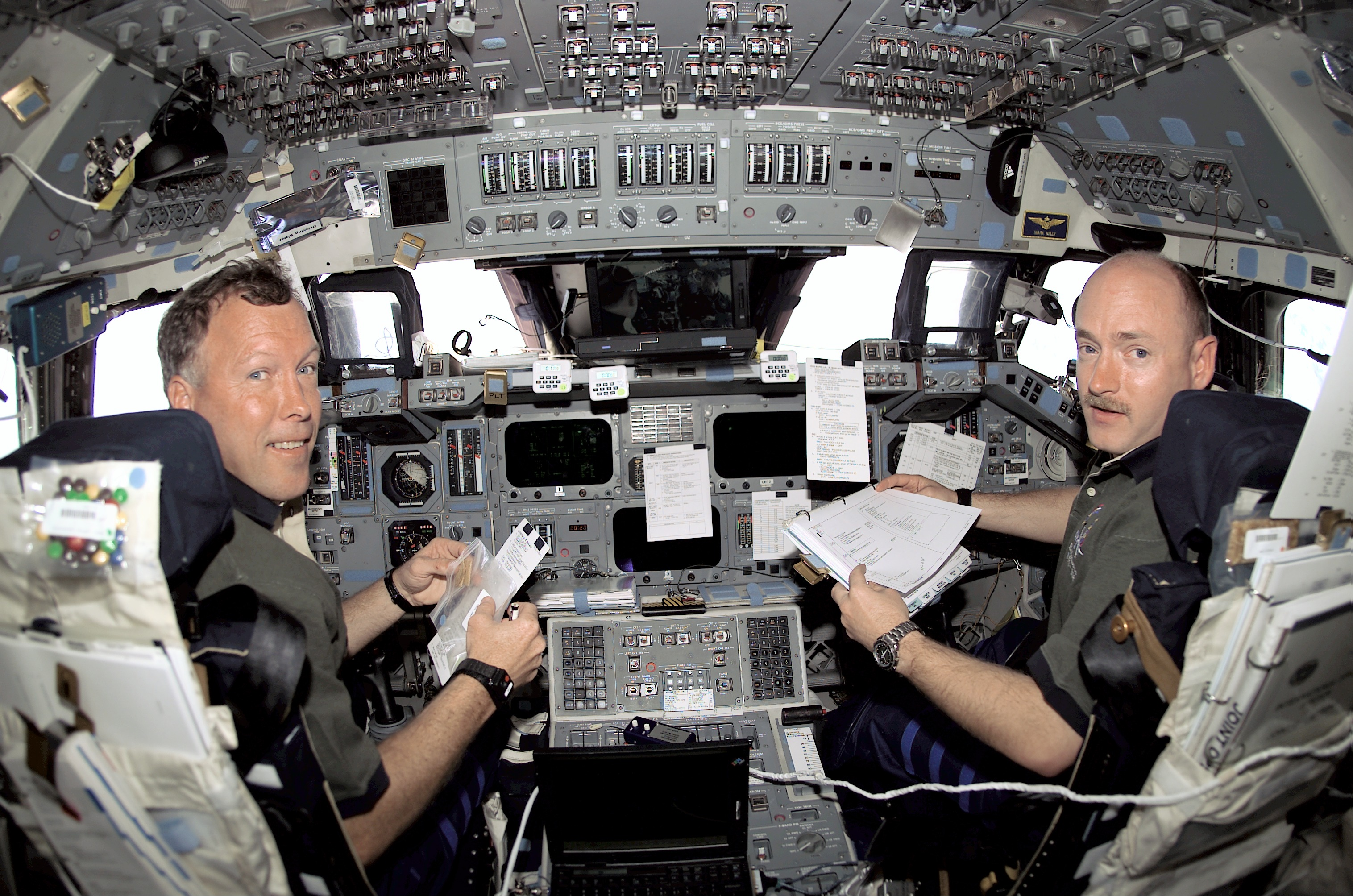 Astronauts Dominic L. Gorie (background), STS-108 commander, and Mark E. Kelly, pilot, are in their respective stations during rendezvous operations with the International Space Station (ISS). Gorie brought Endeavour to a gentle linkup with the ISS at 2:03 p.m. (CST) as the two craft sailed over England. Within minutes, Kelly and astronauts Linda M. Godwin and Daniel M. Tani (out of frame), mission specialists, began to conduct post-docking checks of the mechanical interface between Endeavour and the station’s Destiny Laboratory prior to the opening of the hatches on the two vehicles. This image was recorded with a digital still camera.